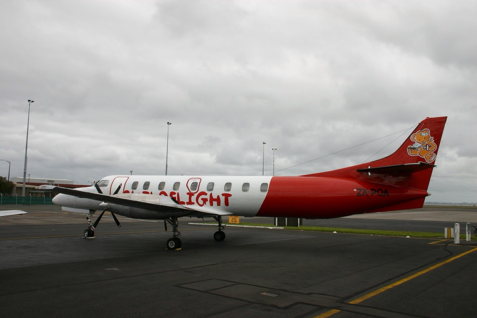 At Auckland